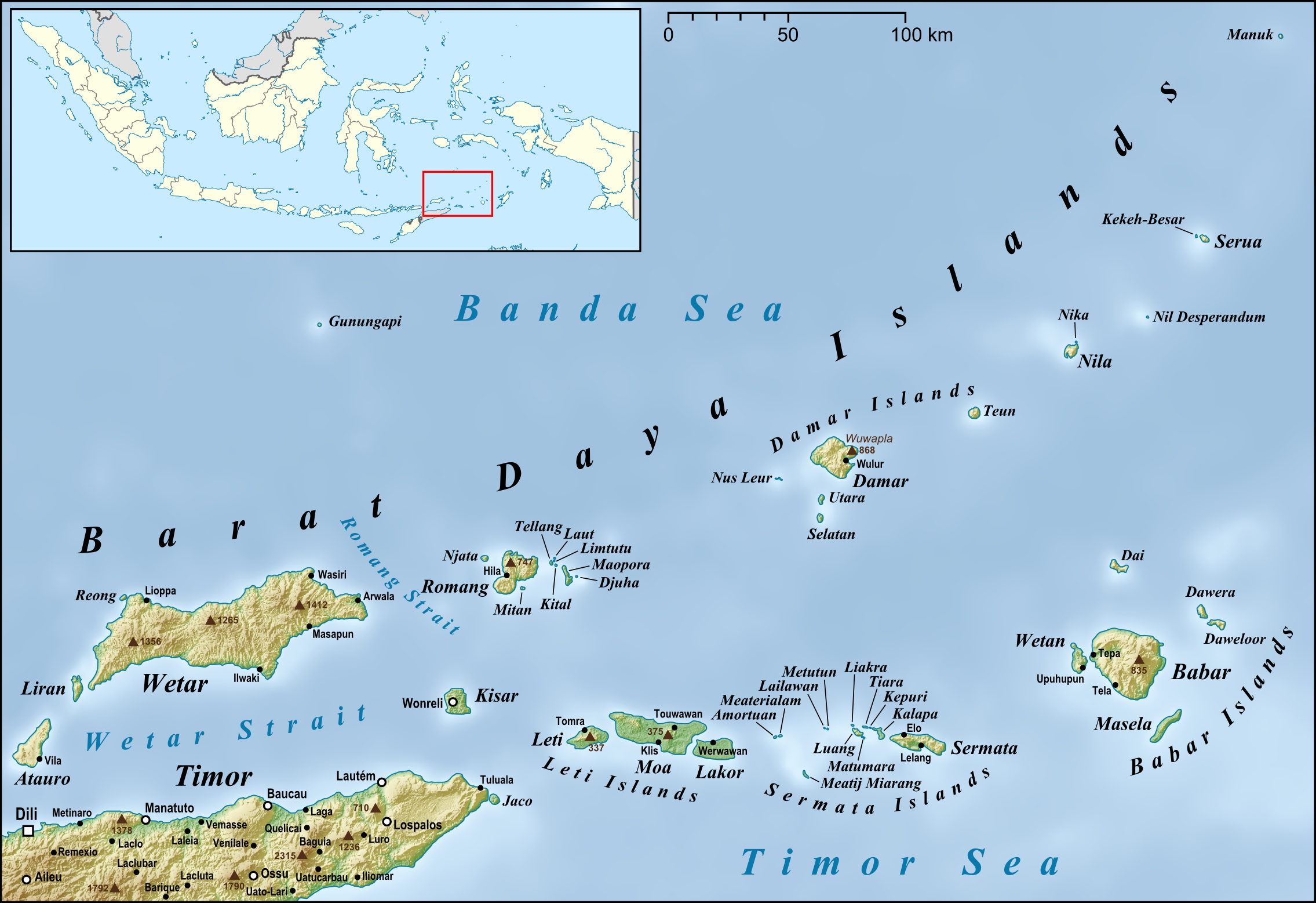 Map of Barat Daya Islands and also the Leti Islands, Sermata Islands and Babar Islands